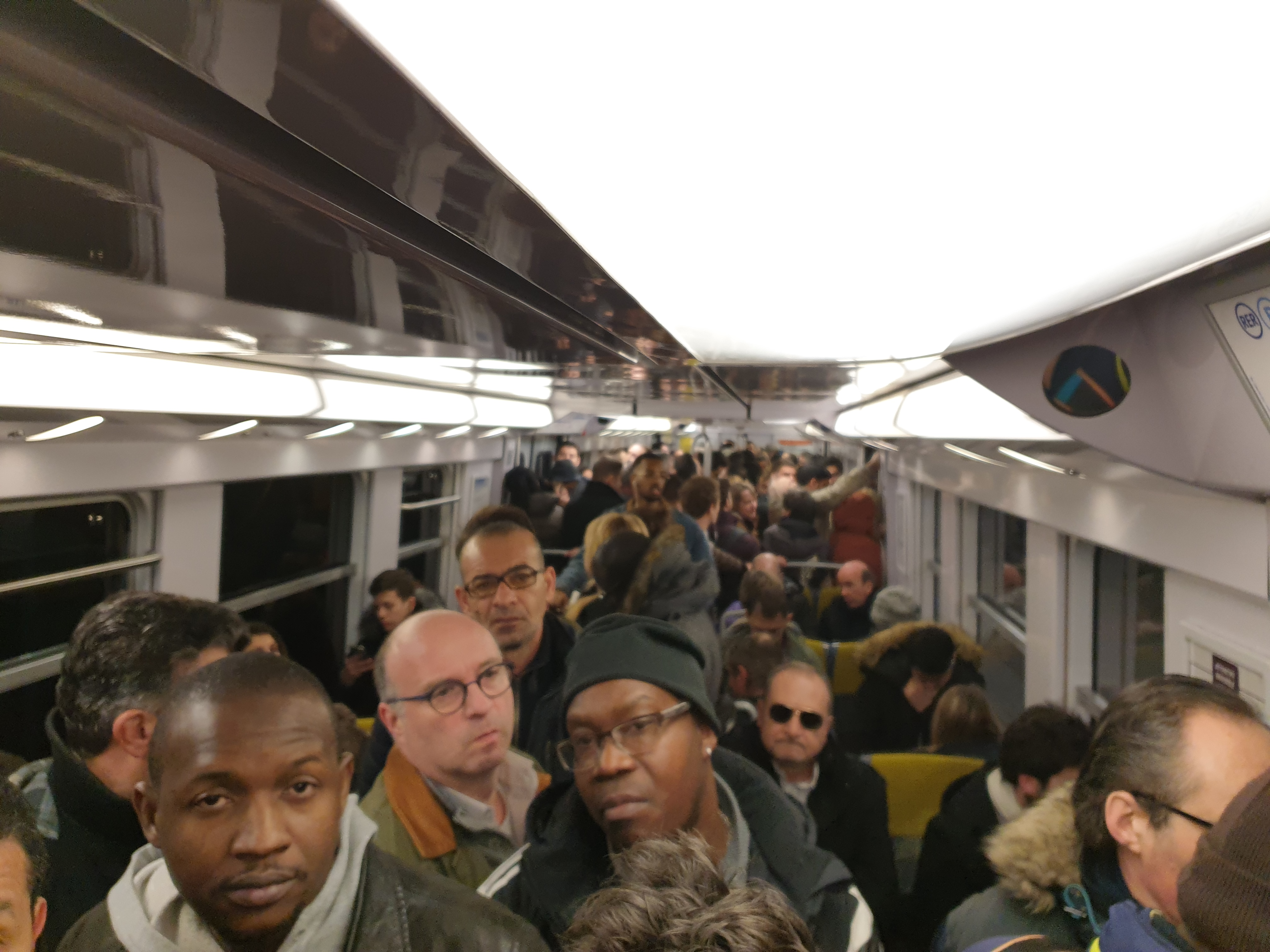 Inside the RER B going to Paris - 2019-02-14